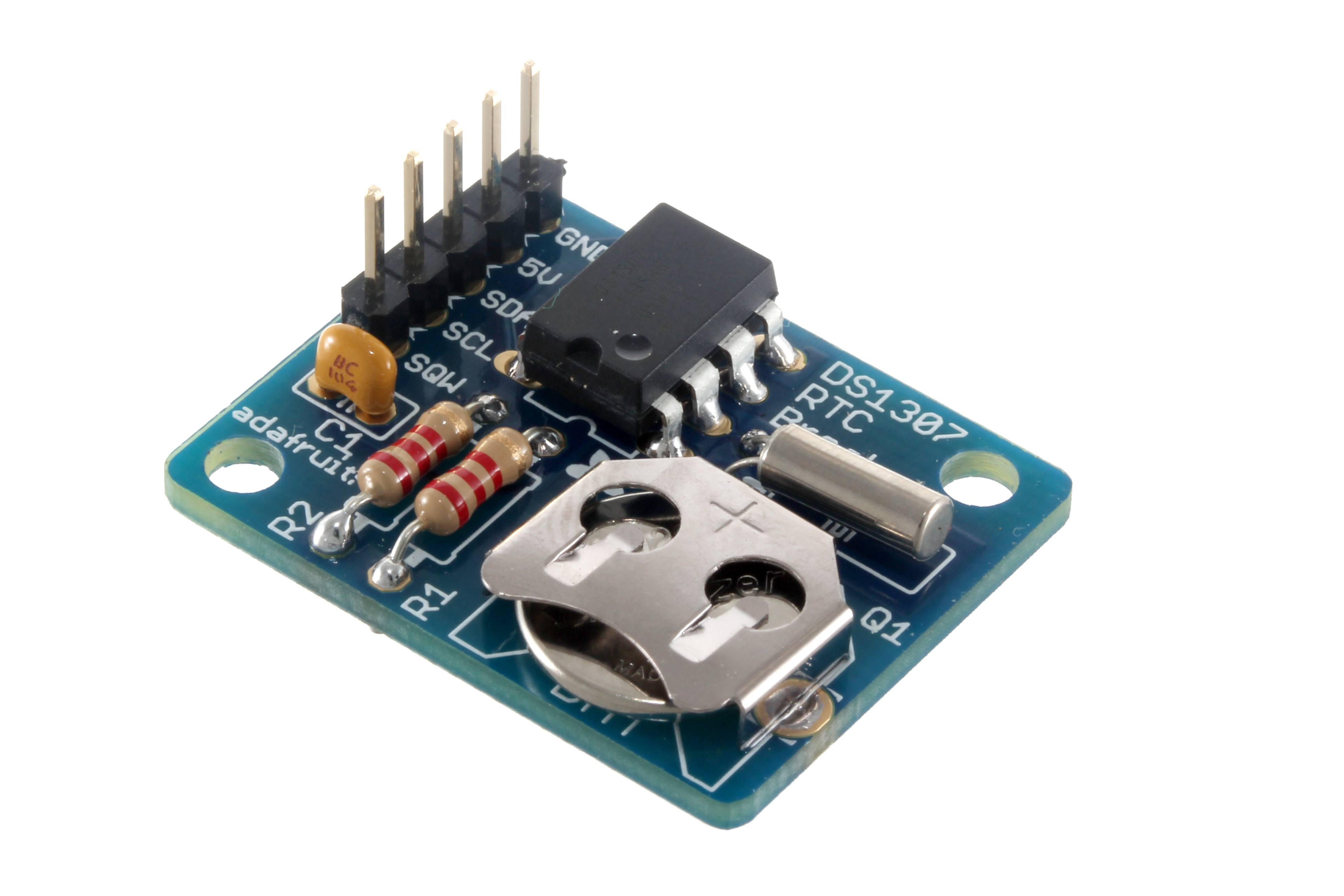 Adafruit DS1307 Real Time Clock module (assembled).